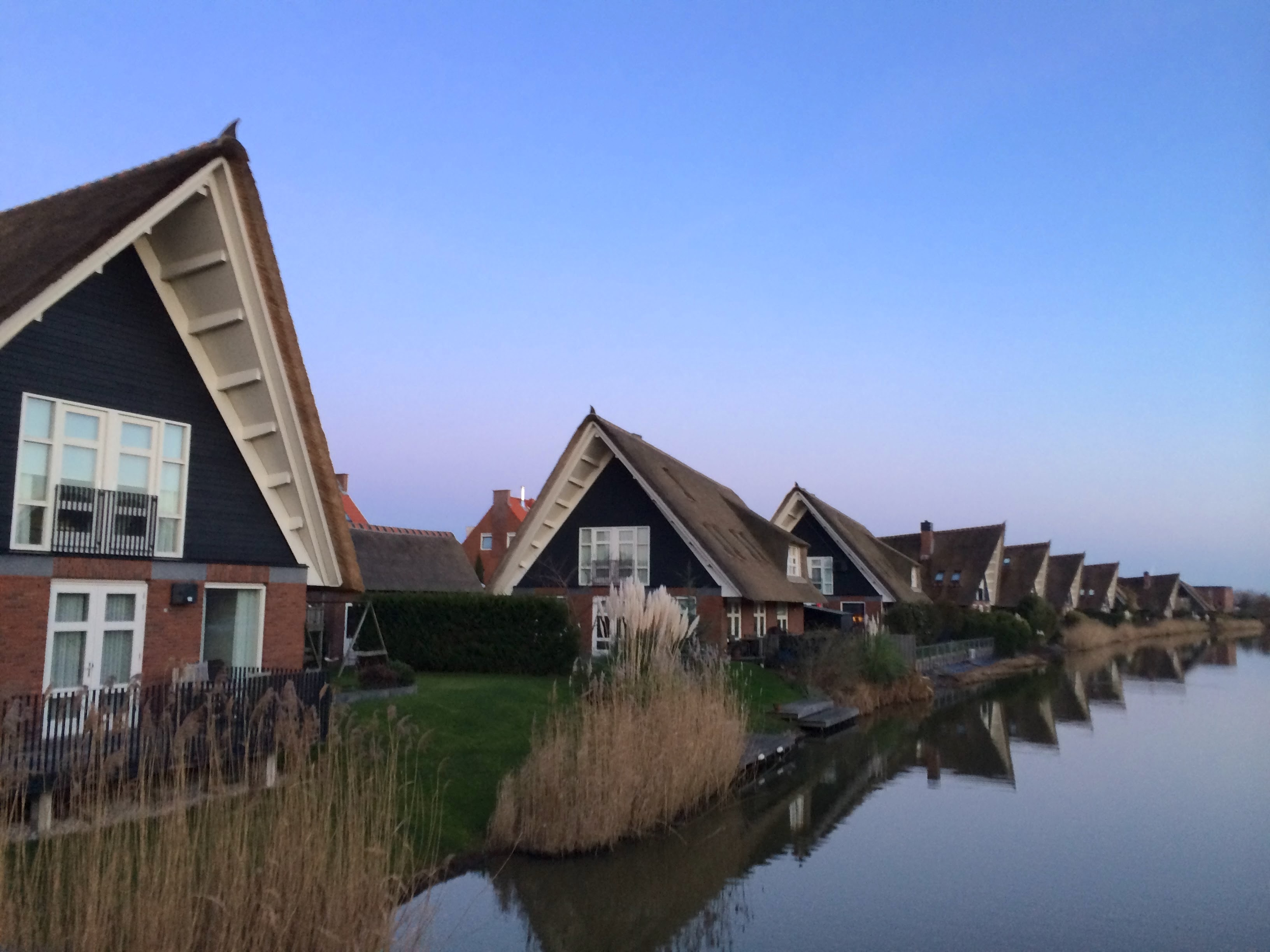 A photo taken in Nieuw-Vennep, the Netherlands.